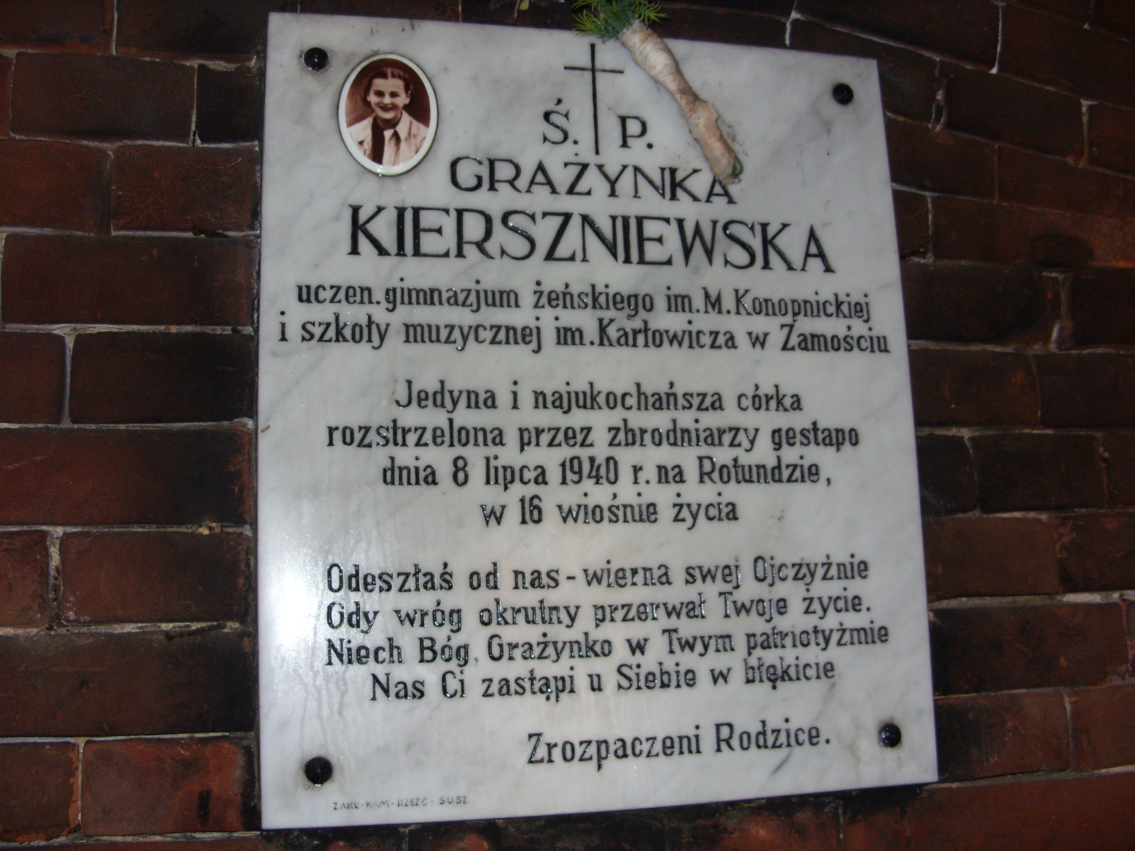 Grażyna Kierszniewska 16-year-old student, girl scout, murdered by the German Gestapo in the Rotunda of Zamosc on July 8, 1940